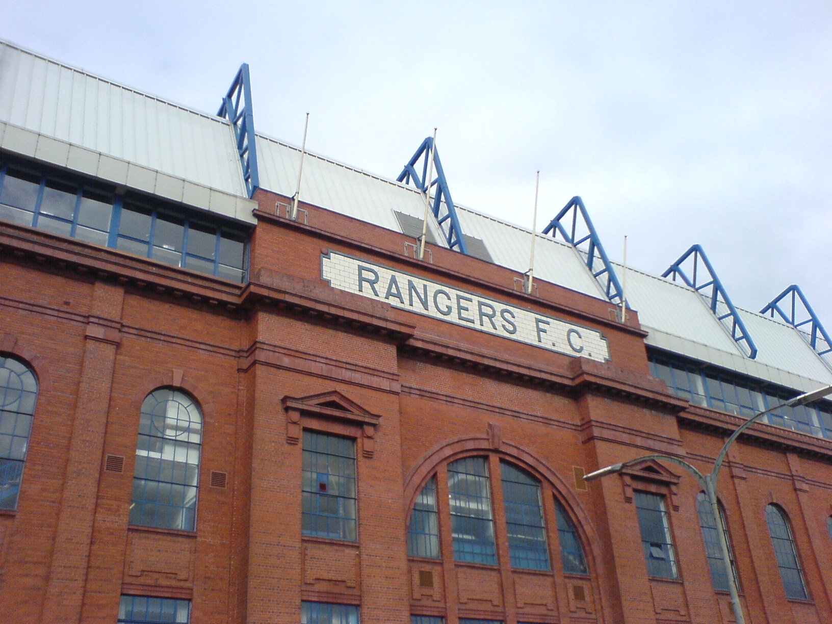 Front facade of Ibrox Stadium